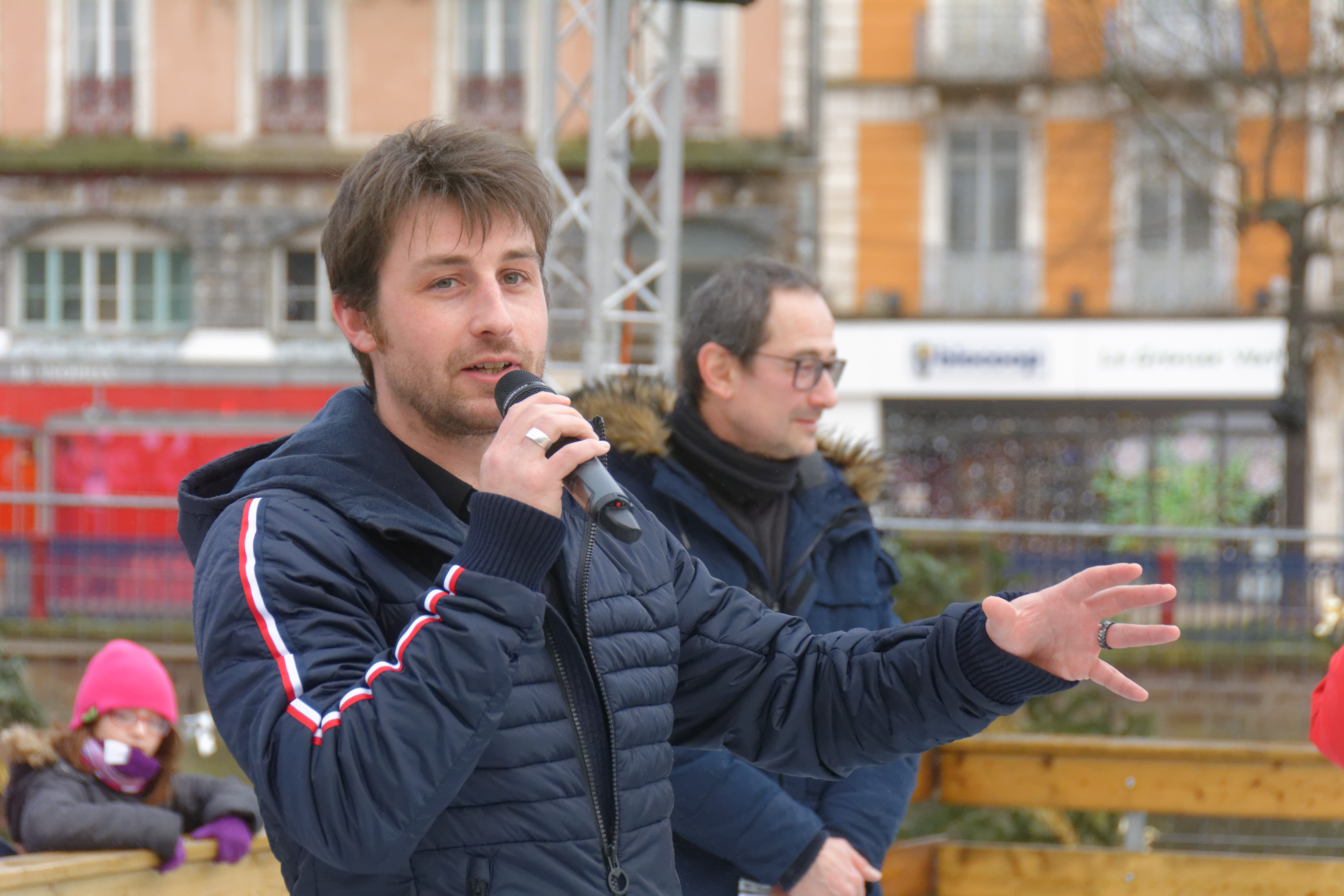 Personality rights warningAlthough this work is freely licensed or in the public domain, the person(s) shown may have rights that legally restrict certain re-uses unless those depicted consent to such uses. In these cases, a model release or other evidence of consent could protect you from infringement claims.